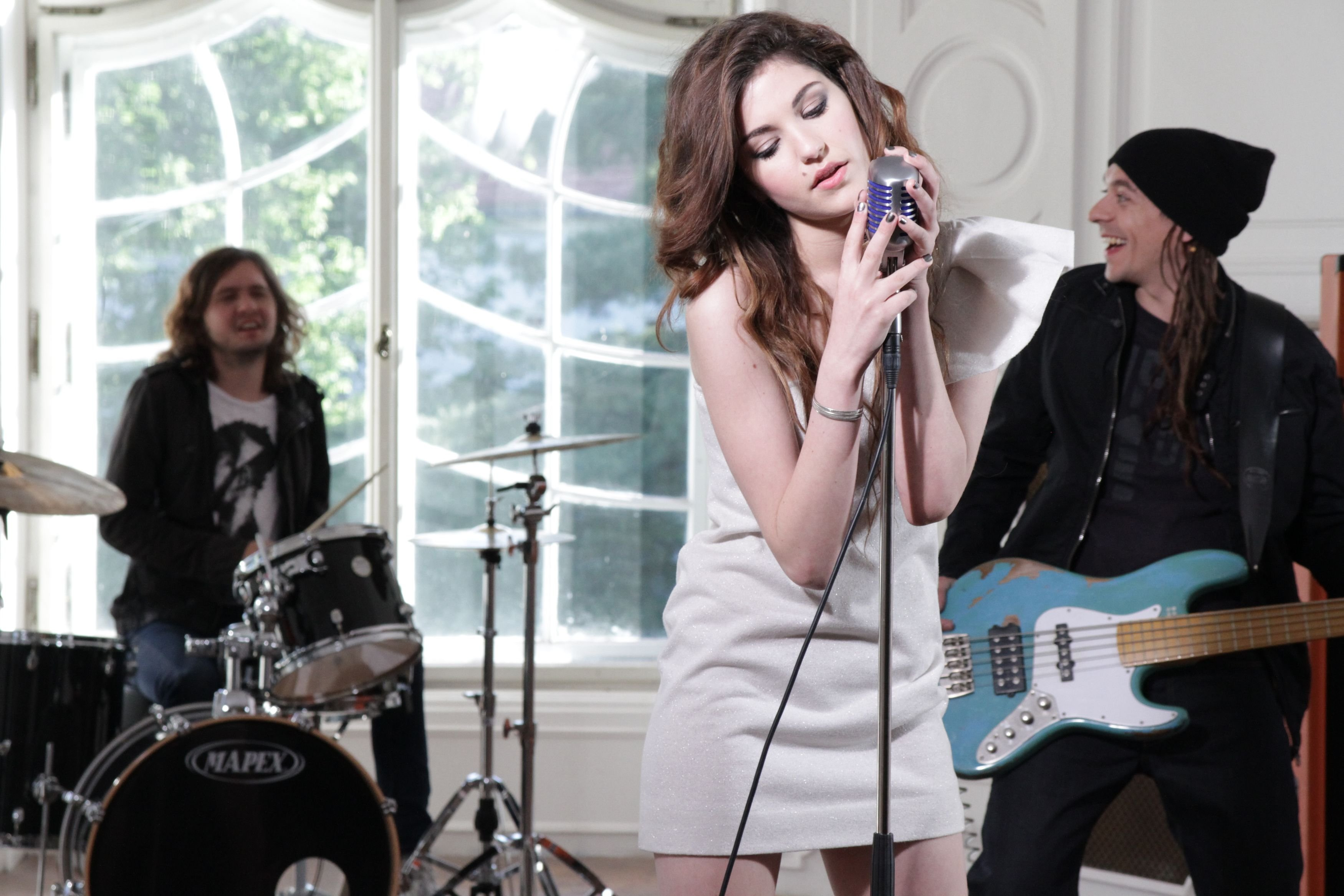 Celeste Buckingham, photographed by Lukáš Dvořák, during shooting the music video "Run Run Run".